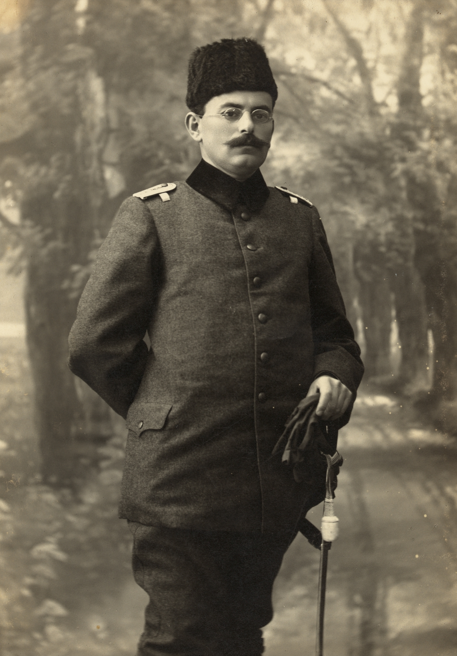 Palestinian physician and ethnologist Tawfiq Canaan (1882-1964)